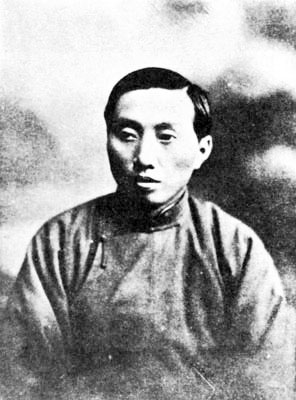 Chen Wangdao around May 4 Movement